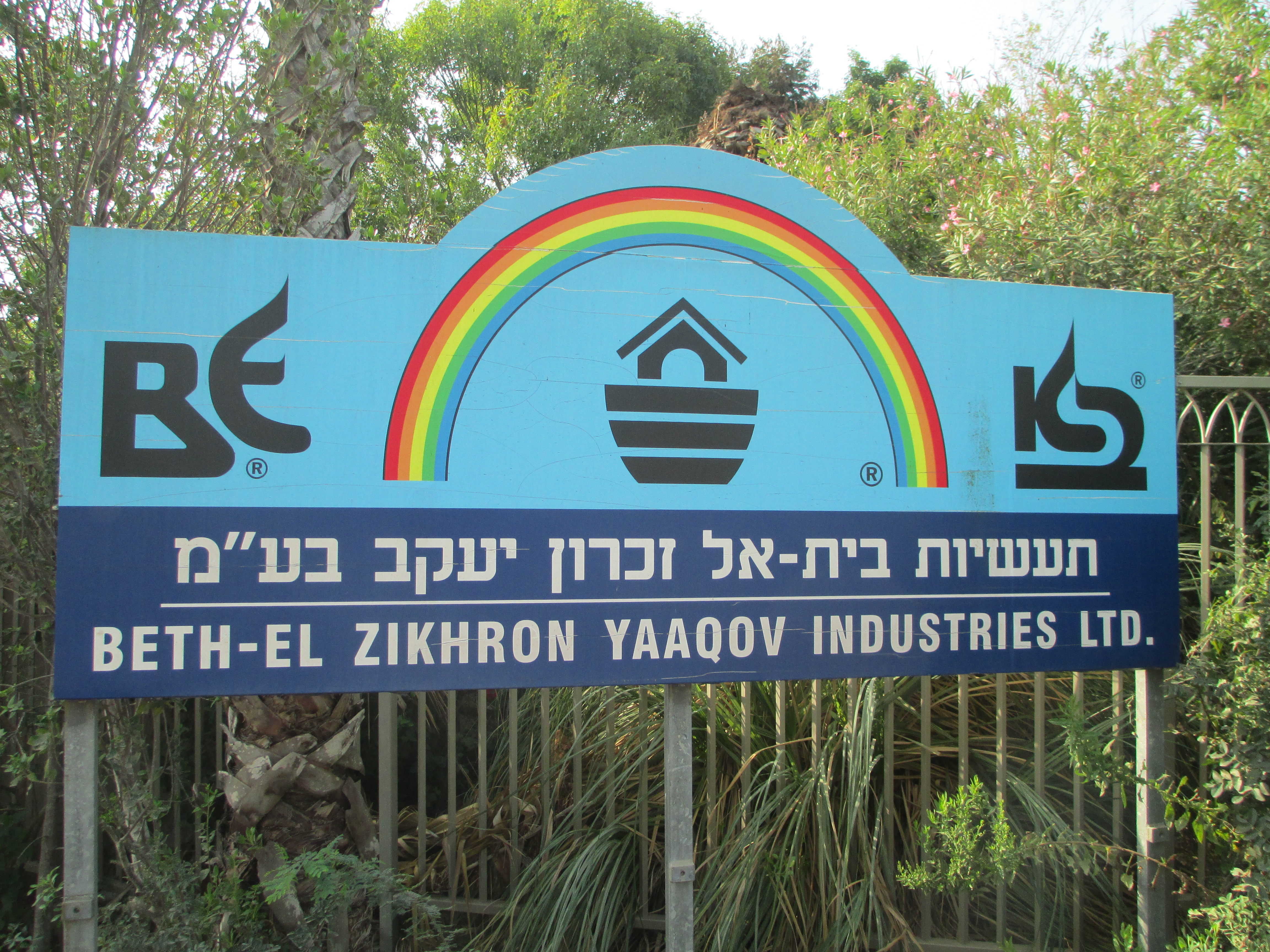 Beth-El industries in Zikhron Ya'akov